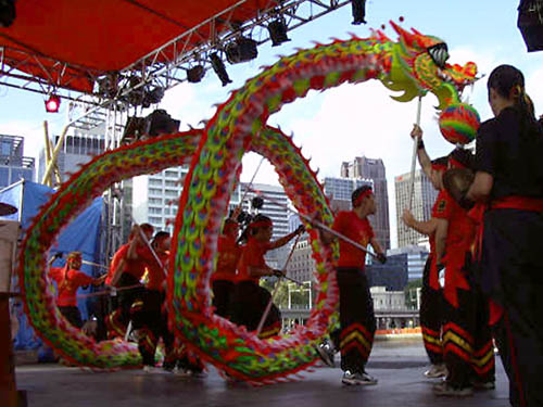 Imagem File:CYSM CNY show with Chai.jpg, released into the public domain BY File:CYSM CNY show with Chai.jpg